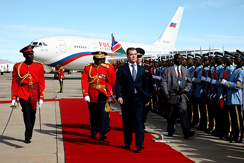 WINDHOEK. Official departure ceremony for Russian President.